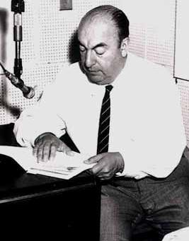 Pablo Neruda during a Library of Congress recording session, 20 June 1966